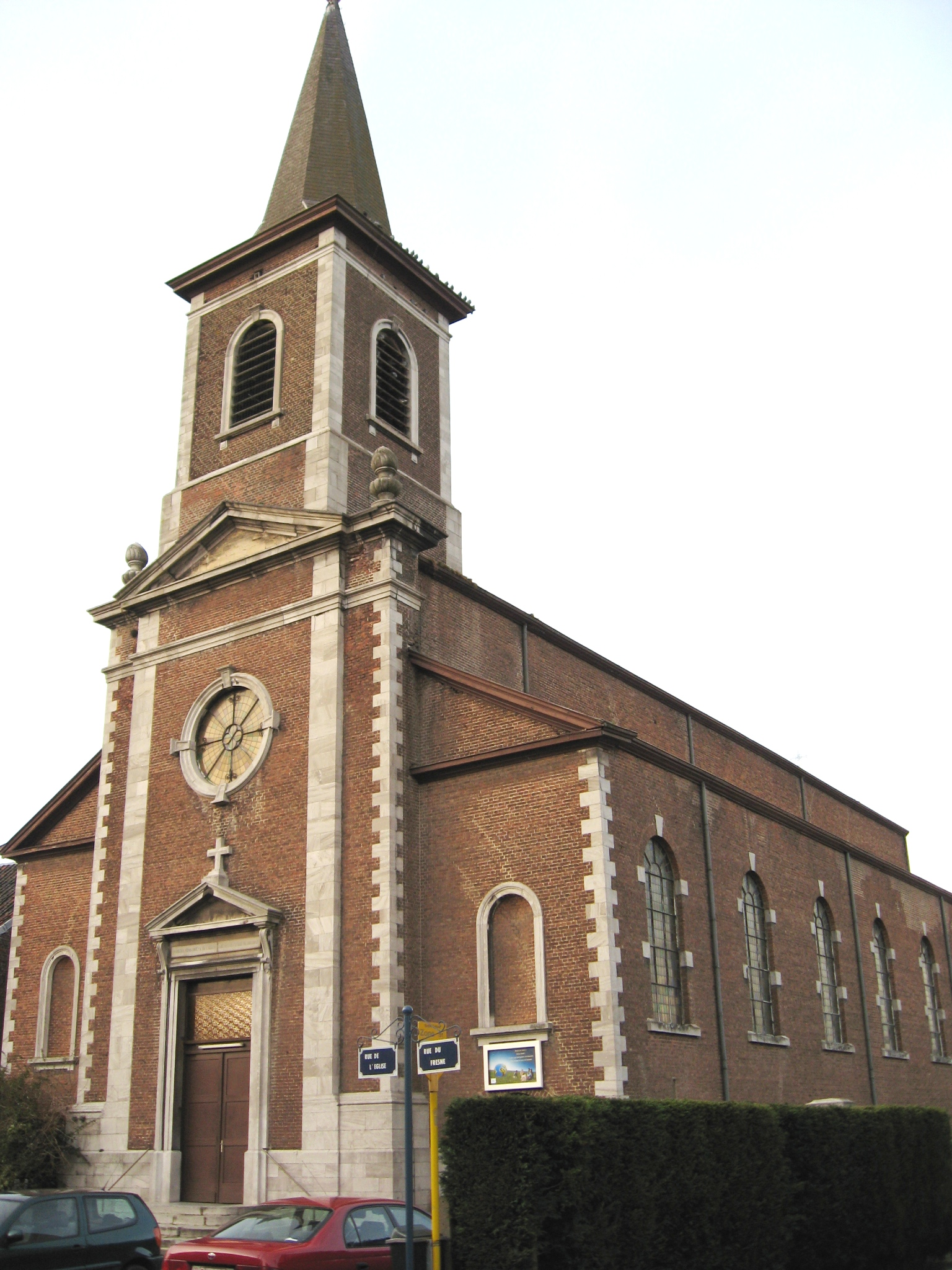 Church of Saint Lambert in Boirs, Bassenge, Liège, Belgium